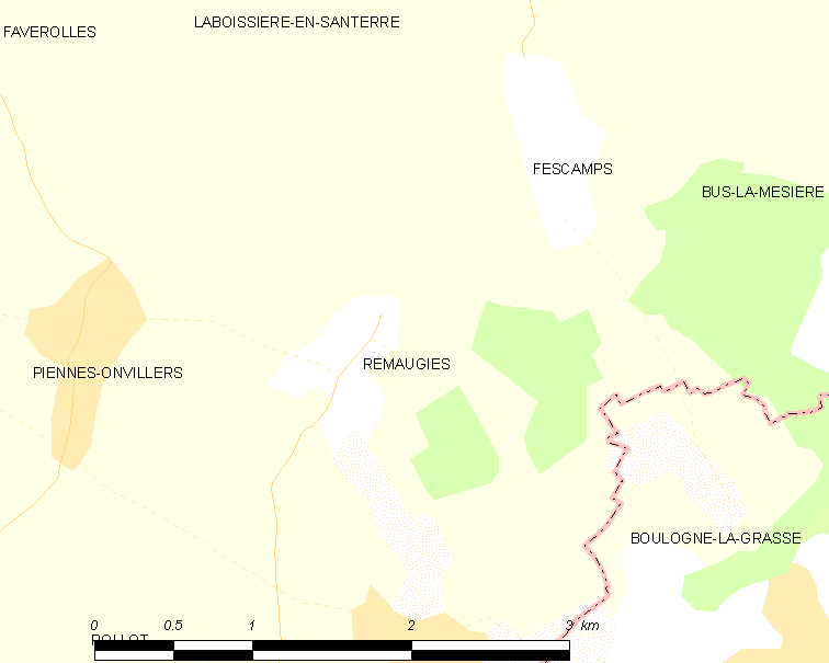 Map of French municipality Remaugies